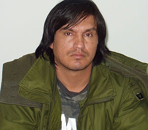 Jhonny Cano-Correa under arrest.